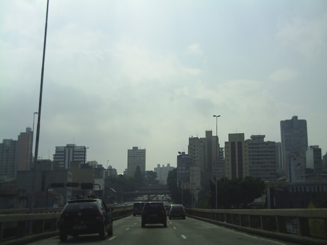 east-west link os São Paulo City.